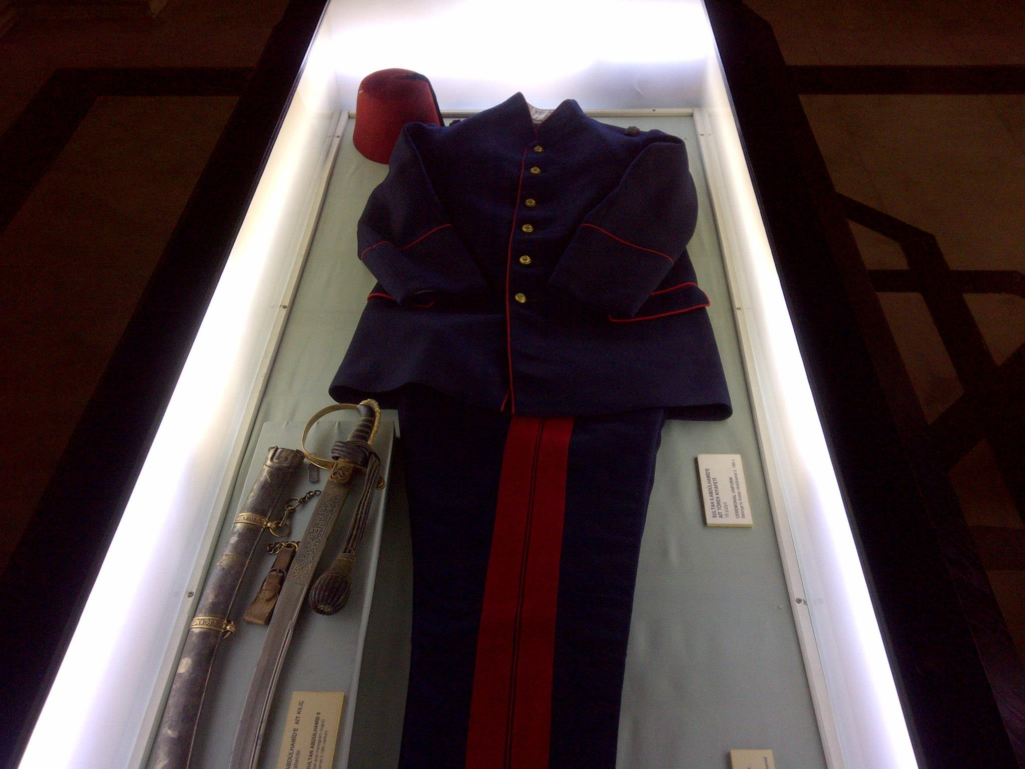 Sultan Abdül Hamid II Suit on display at Yıldız Palace in Istanbul.